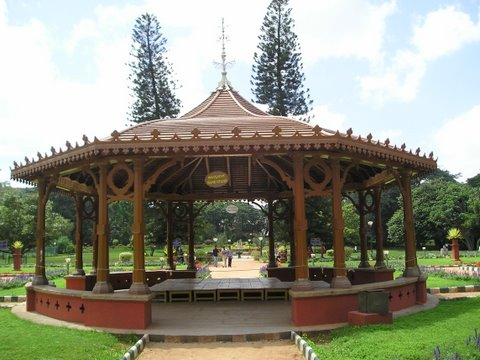 This wooden structure is meant for musical Orchestra